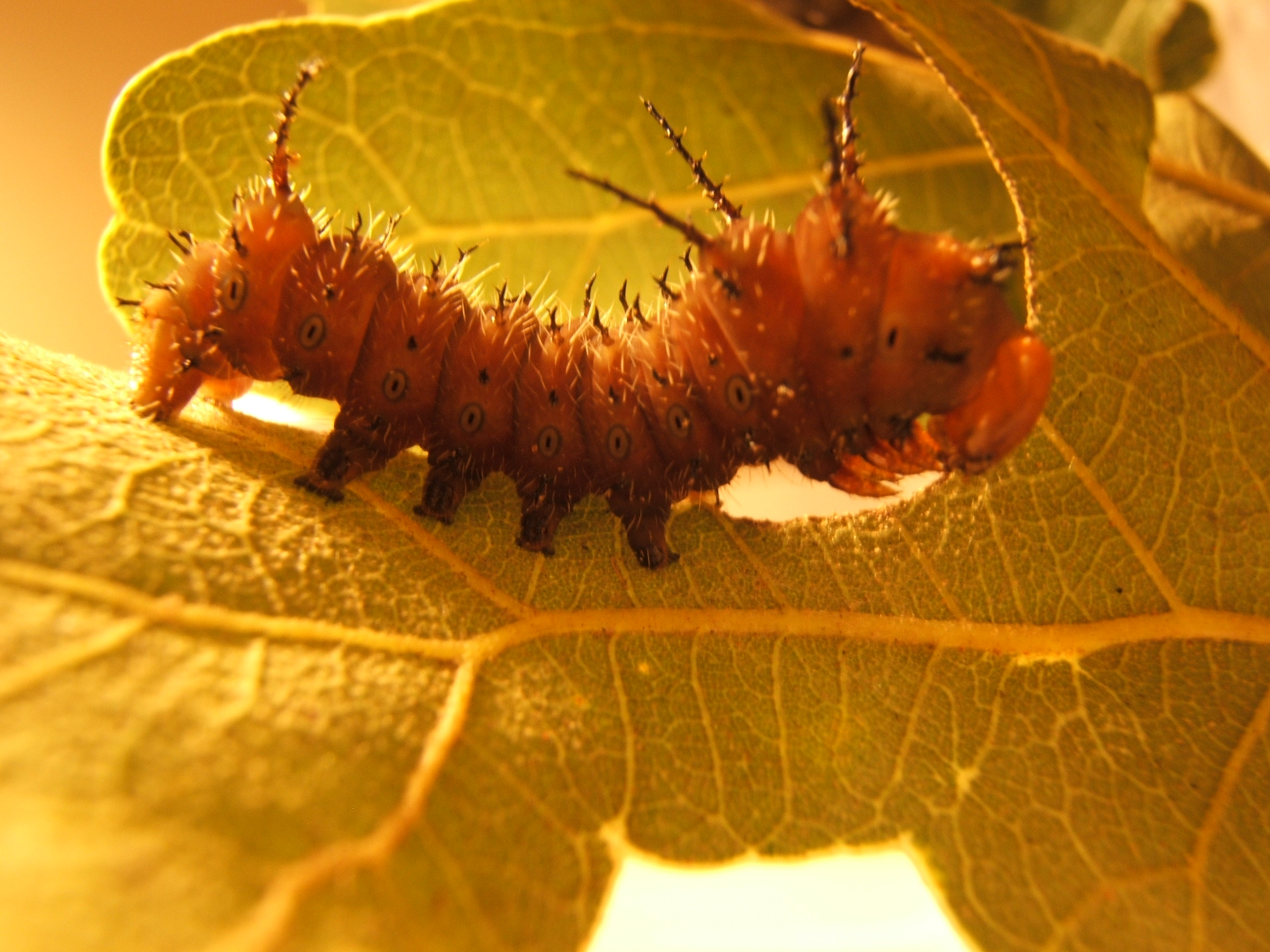 Eacles imperialis 3rd instar larvae reared on Post oak. This caterpillar is undergoing apolysis. Taken by and raised by Shawn Hanrahan.